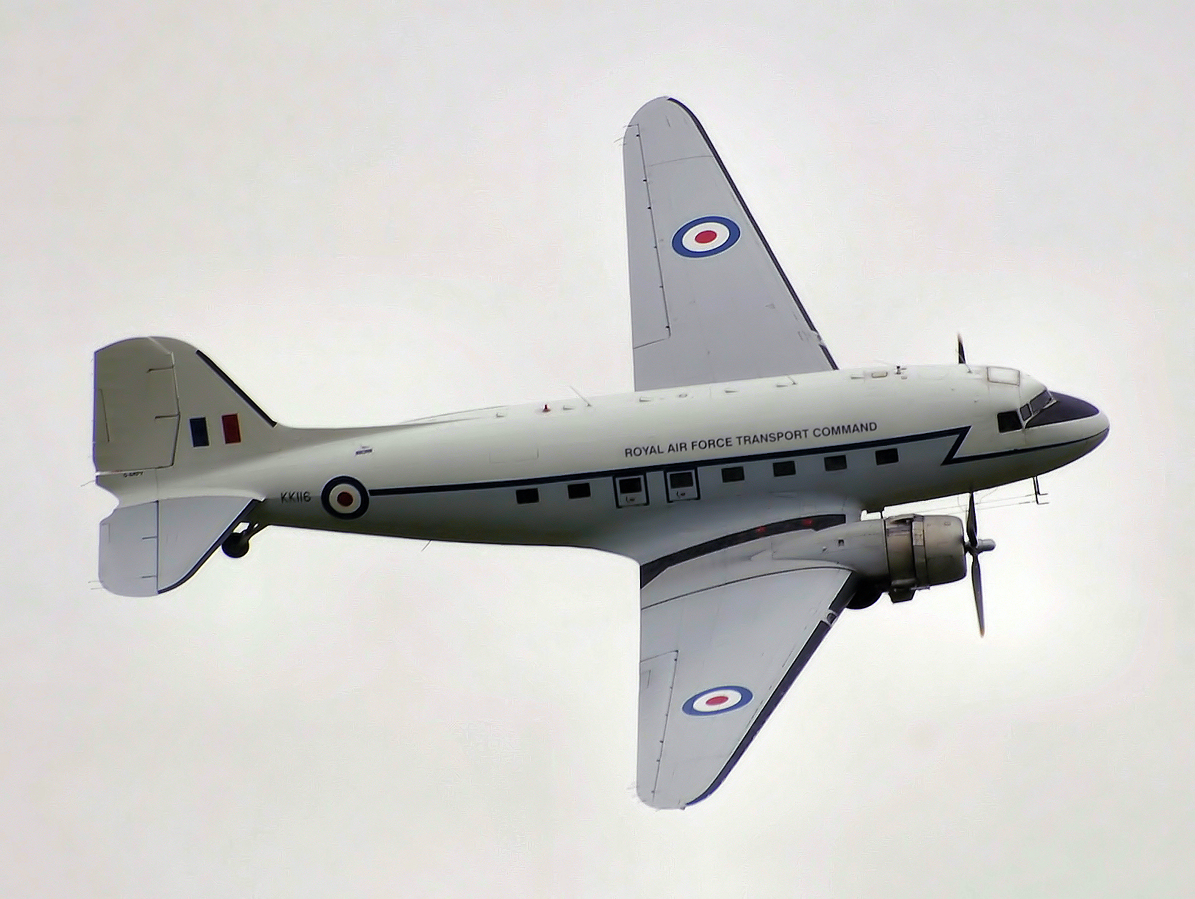 Douglas C-47B Dakota Mk4 of the Air Atlantique Classic Flight, at the 2008 Kemble Open Day, Kemble Airport, Gloucestershire, England. RAF code KK116, civil registration G-AMPY. Built 1943 in Oklahoma, USA, for the United States Air Force. Transferred to the RAF in 1944.